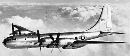 An TB-50D-70-BO(be constructed by B-50D-70-BO, s/n 47-052, c/n 15861) is frying.